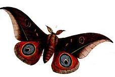 (bottom left) S[aturnia] Janeira = Leucanella janeira (Westwood, [1854]), ♂?